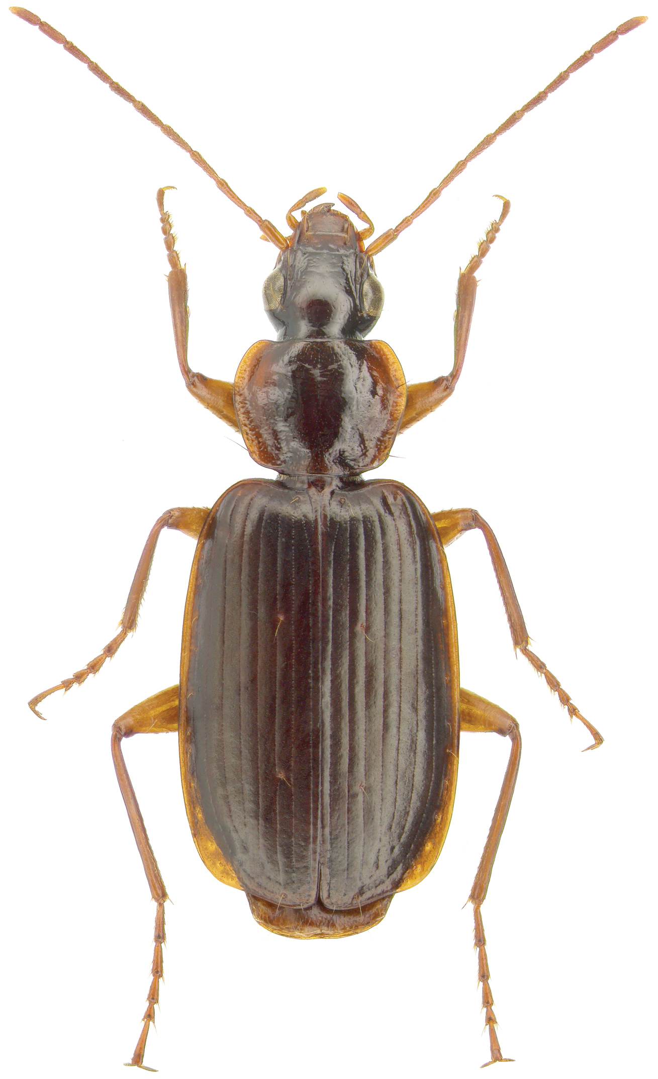 Cymindis platicollis (Say). This Cymindis is a typical element of the temperate forest of eastern North America. Unlike most carabids inhabiting the temperate and boreal regions, this species lives above the surface of the ground in trees and is usually collected by beating branches. An arboreal way of life is a common feature among tropical carabids.